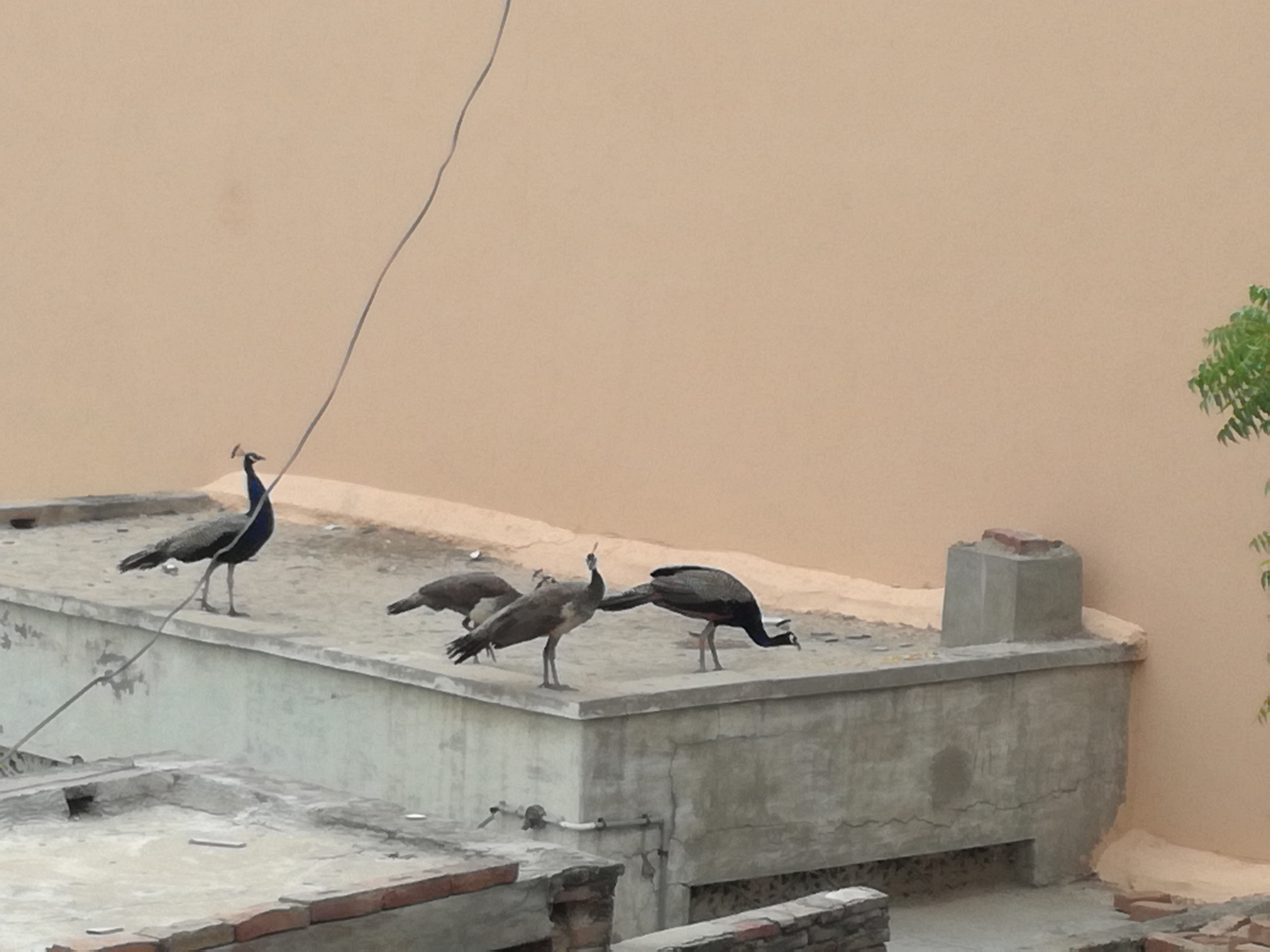 Peafowl fly from one house to other during morning in Tharparkar district and locals feed them grains and pieces of Chapati. In picture Peafowl can be seen eating pieces of Chapati.